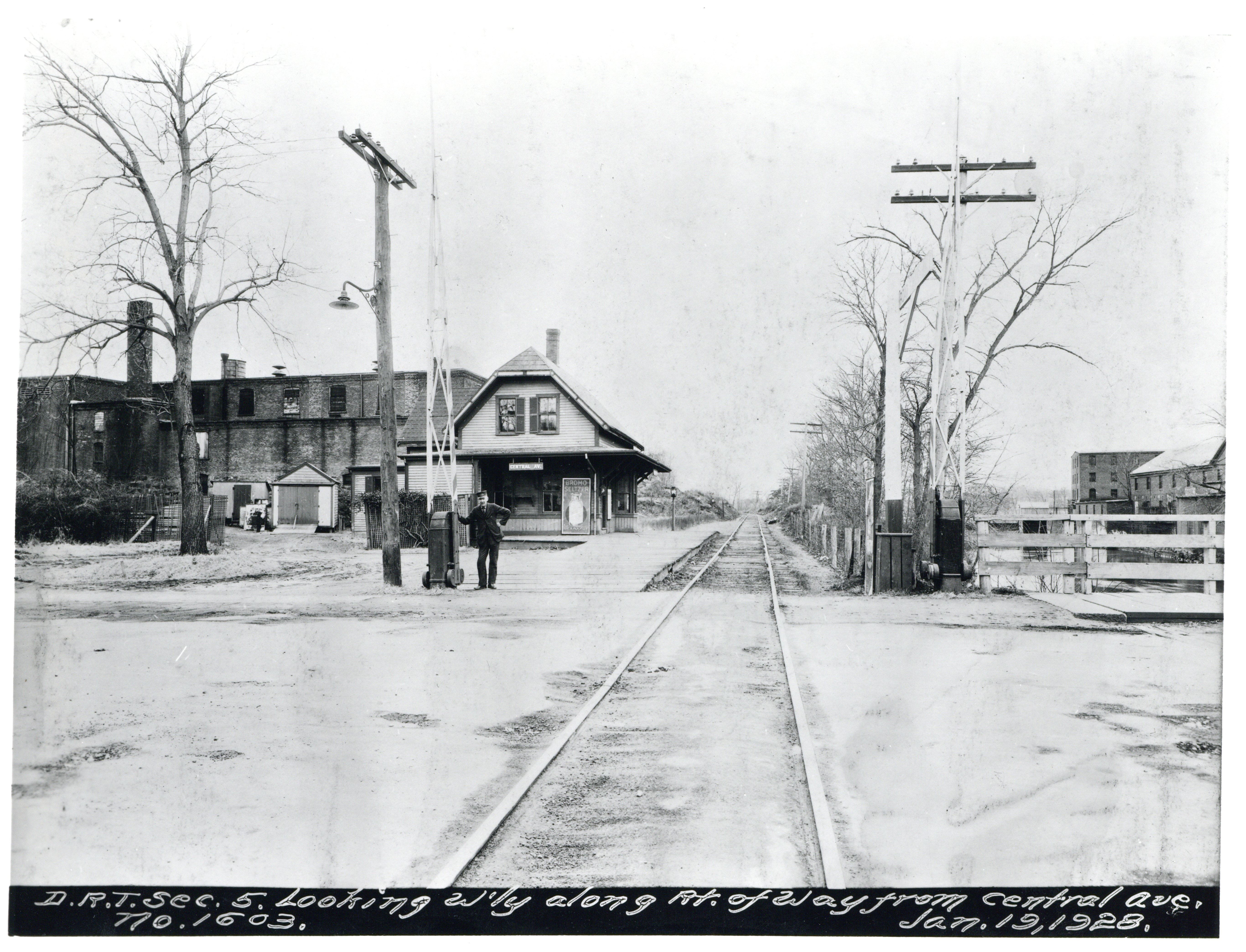 Looking west across the Central Avenue crossing to Central Avenue station in January 1928, shortly before it was demolished during the construction of the Ashmont-Mattapan High Speed Line